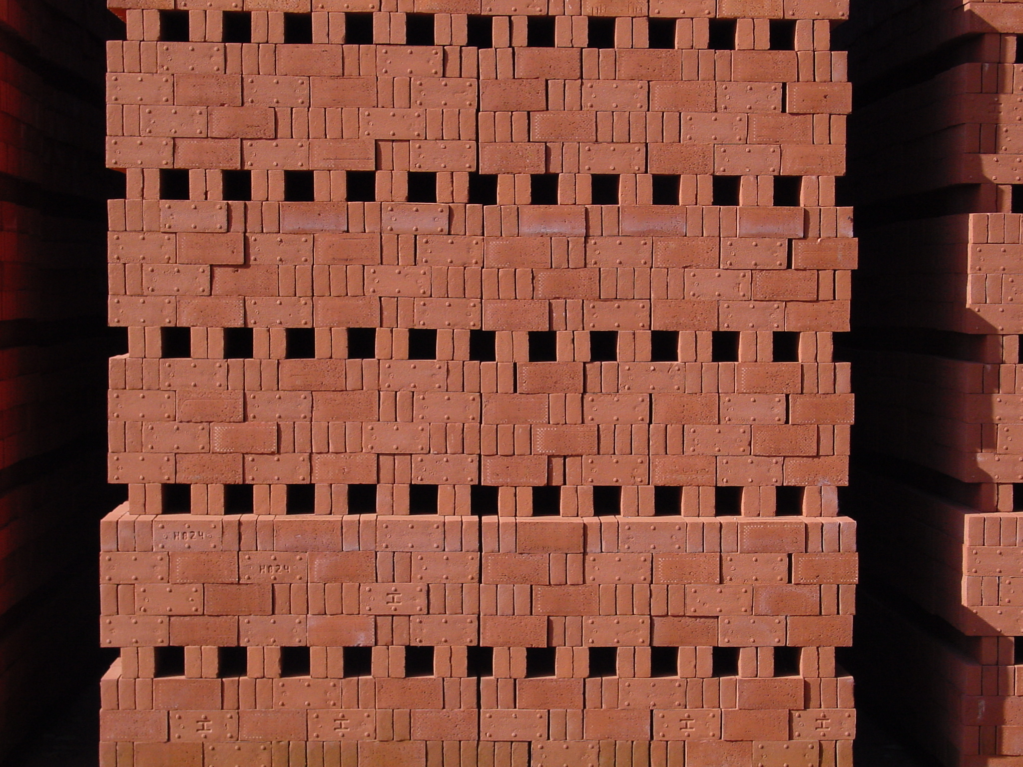 pile of bricks ready for transport in Oeffelt, the Netherlands